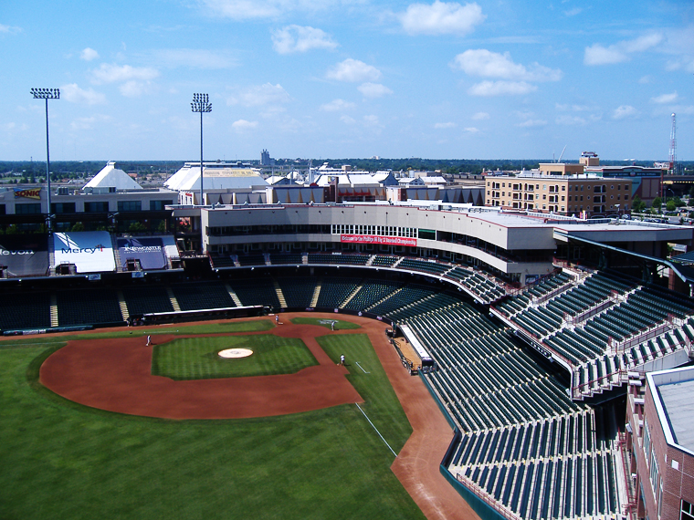 Chickasaw Bricktown Ballpark in Oklahoma City, OK. Home of the Oklahoma City RedHawks.